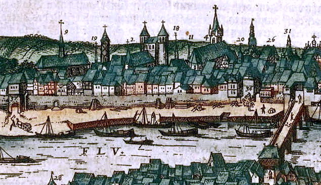 View of the Meuse river and the southern part of Maastricht, the Netherlands, around 1570. In the foreground Wyck, to the left the medieval bridge. In the city wall two gates: Onze-Lieve-Vrouwepoort (left) and Visserspoort (right). Detail of a city panorama by Simon de Bellomonte, c 1570, published in 1575 in Part 2 of Braun & Hogenberg's atlas of world cities Civitates orbis terrarum.